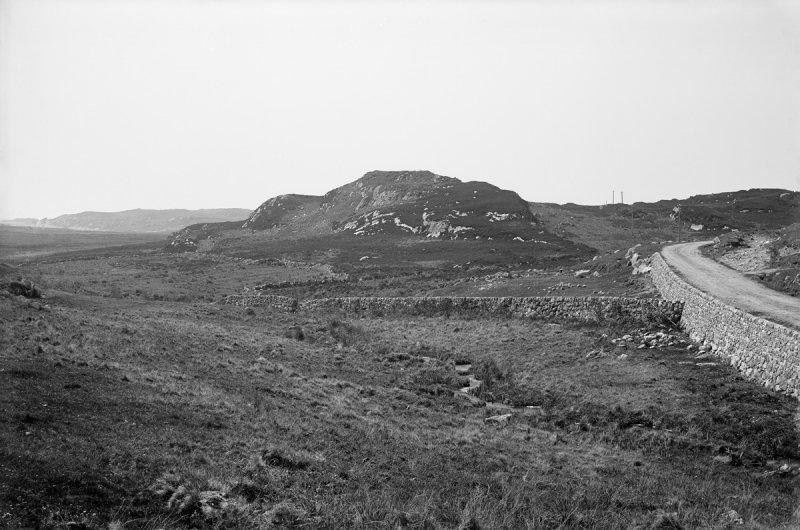 Photograph of Dùn an Achaidh, on the Inner Hebridean island of Coll.